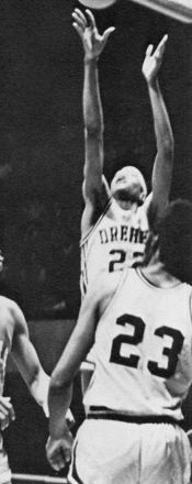 Dreher High School junior Alex English pictured taking a jump shot during a varsity high school basketball game. English would go on to earn All-American honors at the University of South Carolina and become inducted into the NBA Hall of Fame after an illustrious 15-season career in the NBA.